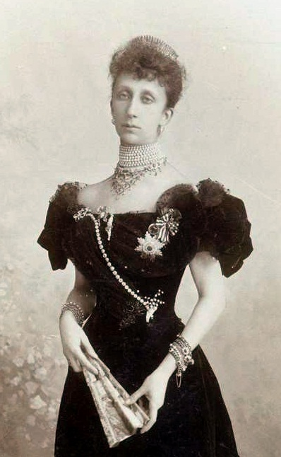 Princess Maria Luisa of Bourbon-Parma